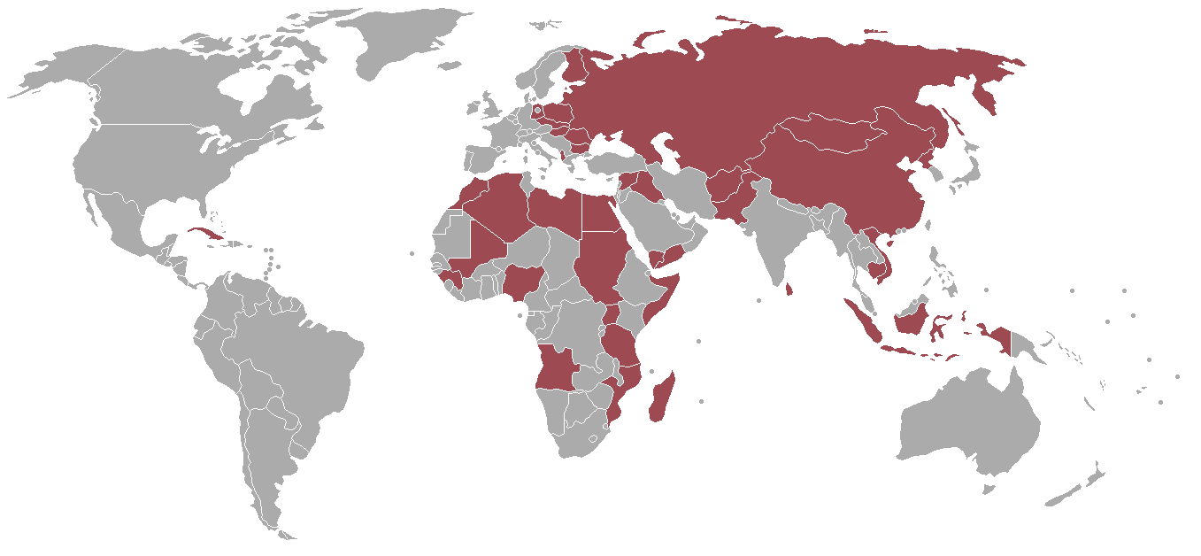 Mig-15 operators, based on list on Mikoyan-Gurevich MiG-15. Uses cold war map from Image:BlankMap-World-1985.png